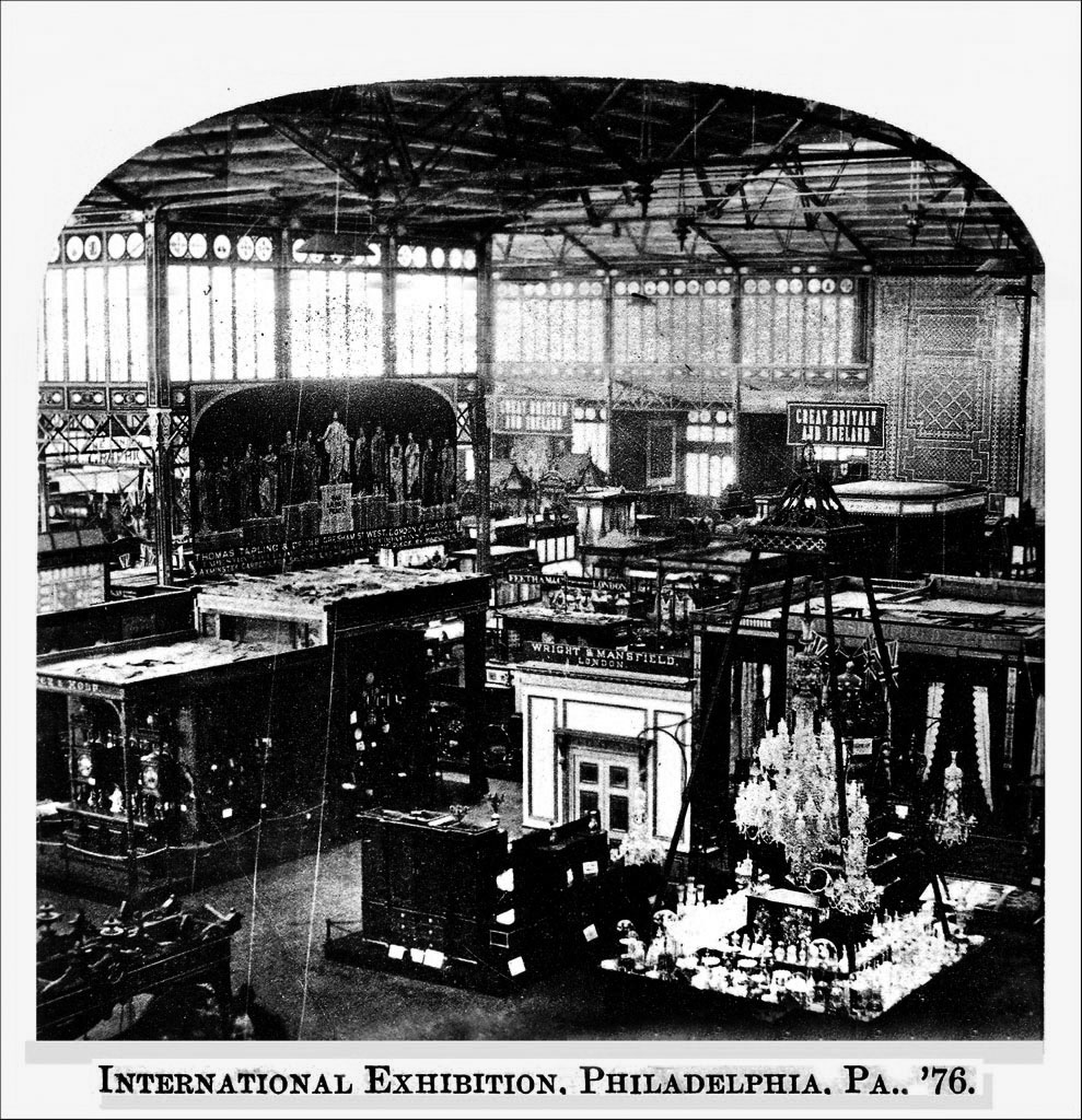 TITLE Centennial International Exhibition, Philadelphia Pennsylvania, 1876 - Exhibit Hall CREATOR French, J.A., Keene NH (?) SUBJECT Exhibitions - PA - Philadelphia DESCRIPTION Stereograph, possibly taken by J.A.French of Keene NH, of the Centennial International Exhibition held in Philadelphia in 1876. PUBLISHER Keene Public Library and the Historical Society of Cheshire County DATE DIGITAL 20090720 DATE ORIGINAL 1876 RESOURCE TYPE stereographs FORMAT image/jpg RESOURCE IDENTIFIER HS092 RIGHTS MANAGMENT No known copyright restrictions.